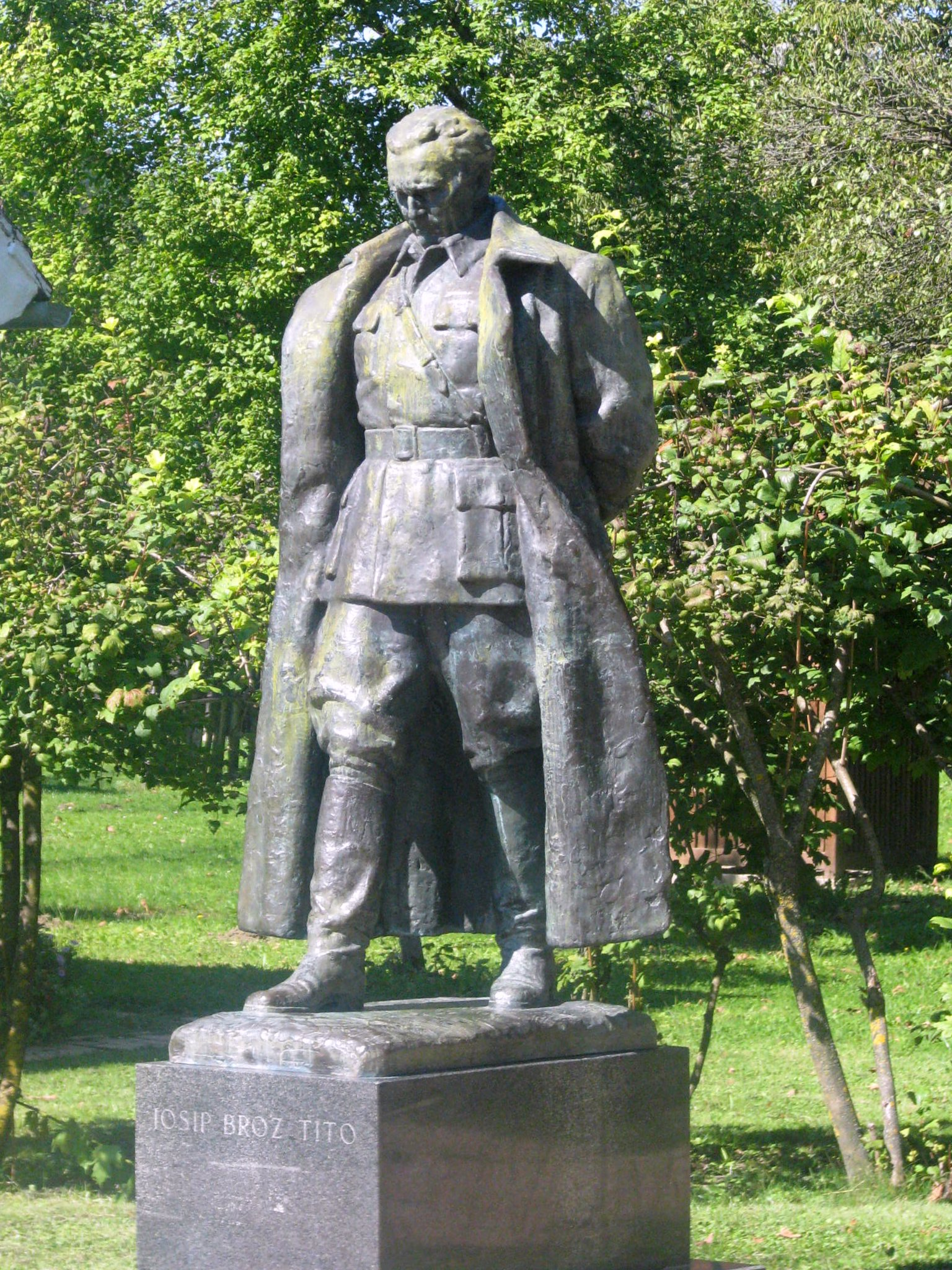 Birth house of Josip Broz TITO